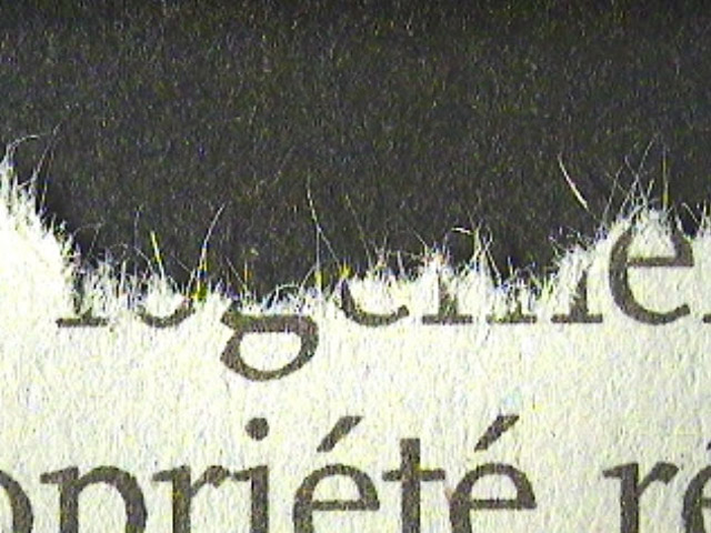 Fibers appear by tearing up a sheet of newspaper.